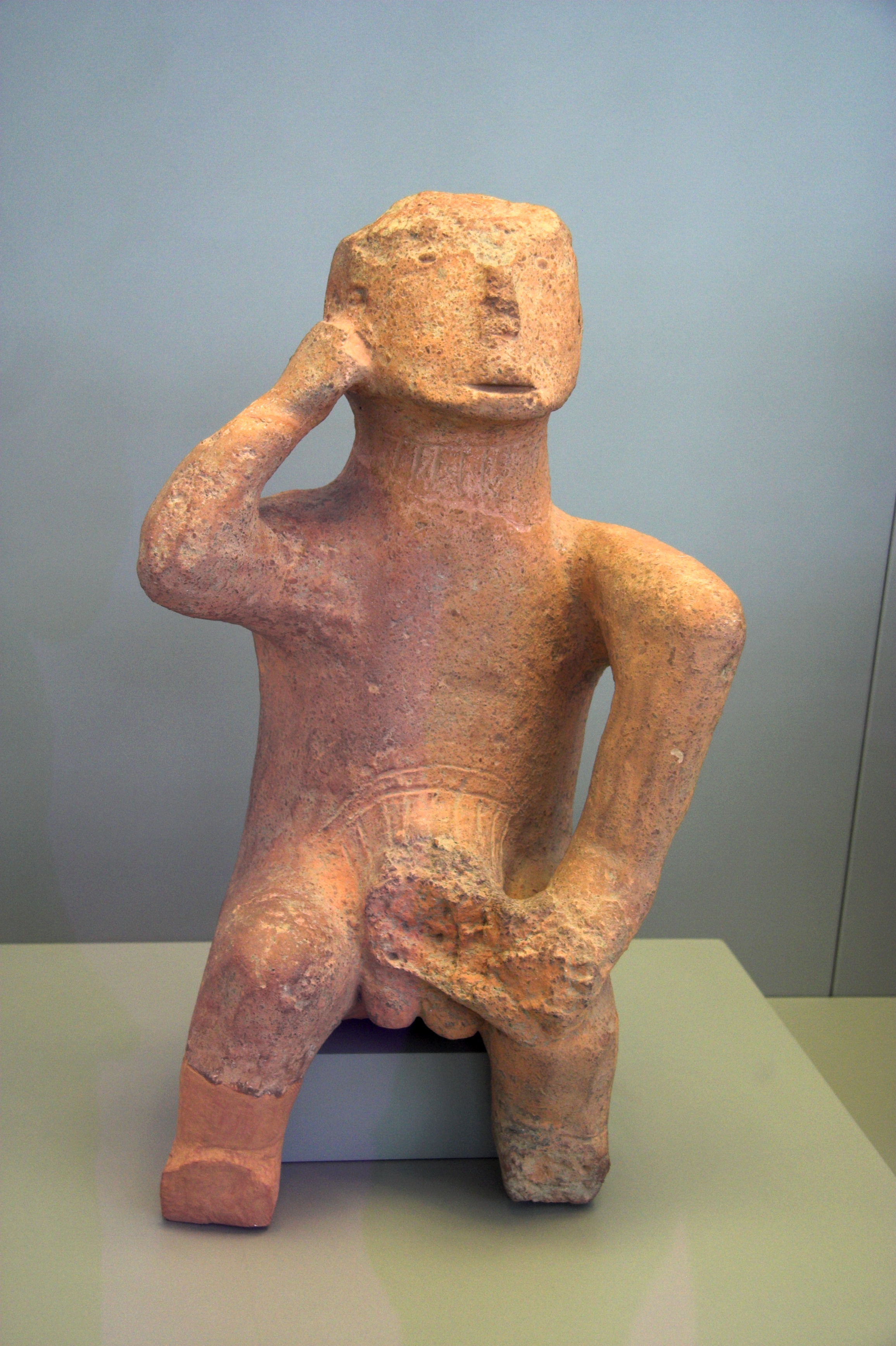 Larger terracotta ("The Thinker"), Neolithic Period, 4500-3300 BC, Karditsa, Thessaly. National Archaeological Museum of Athens 5894.